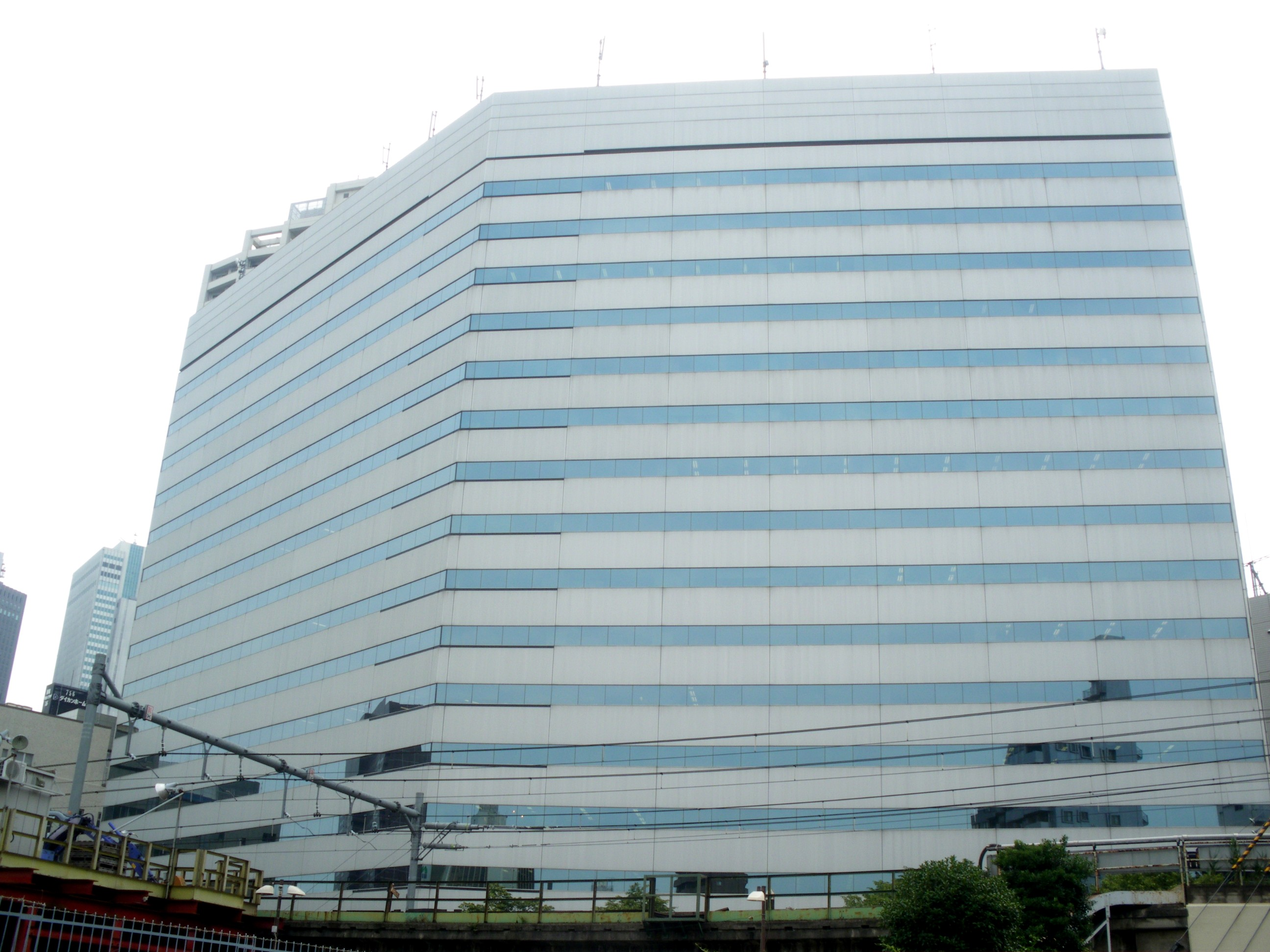 A photo of Nishishinjuku Kimuraya Building,Nishishinjuku,Shinjuku-ku,Tokyo,Japan.